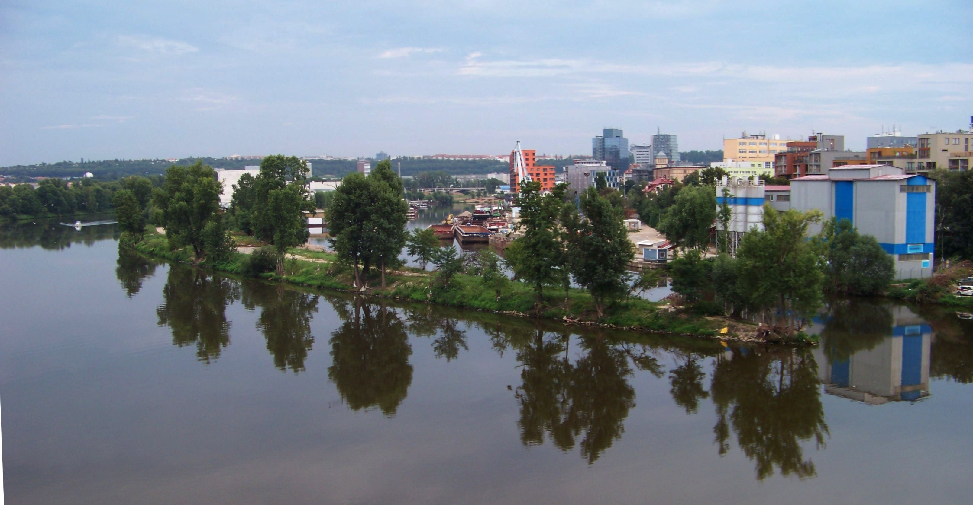 Prague-Holešovice, Czech Republic. Holešovice Port on the Vltava river. - OpenStreetMap(Info)